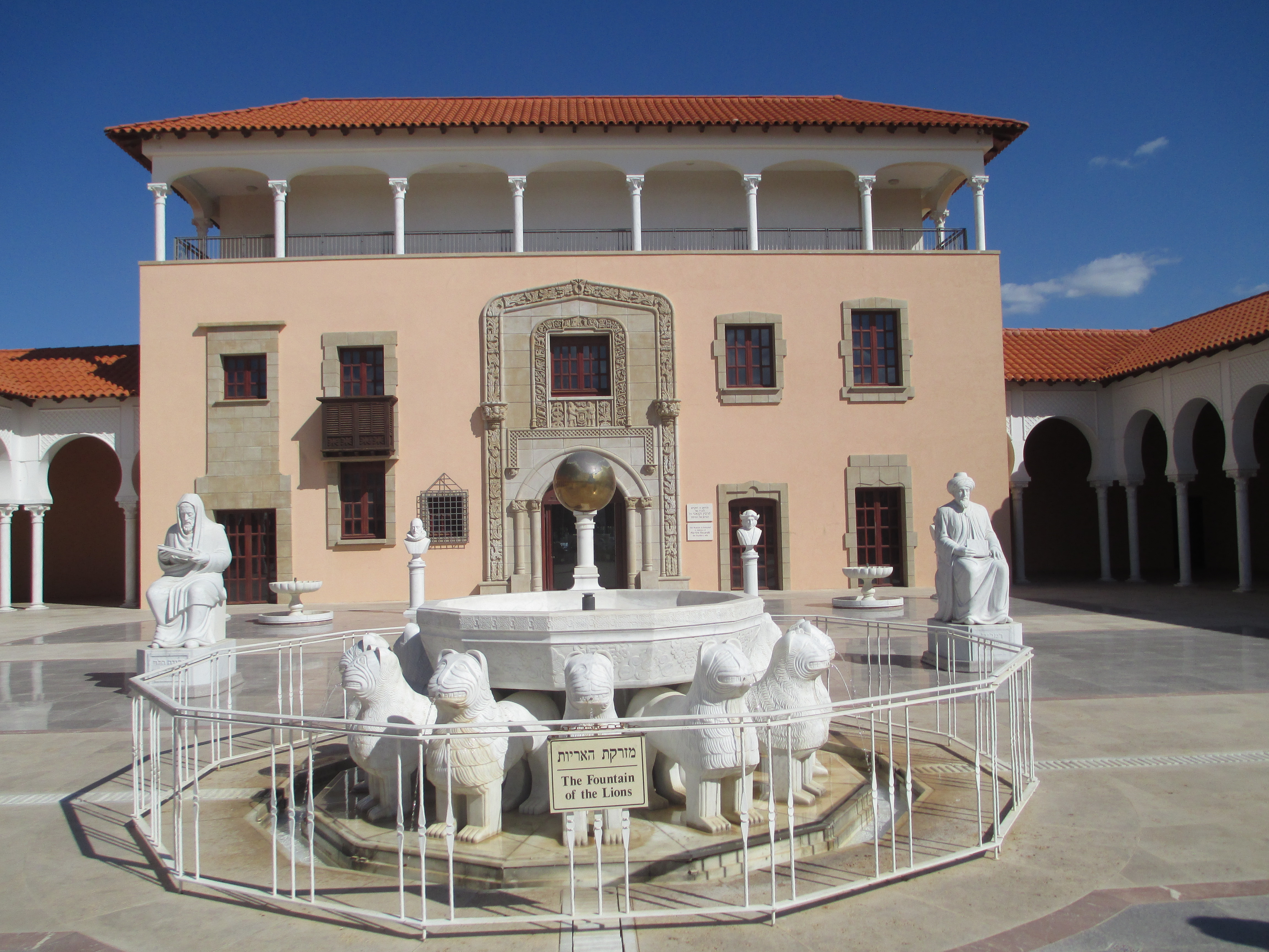 Ralli Museum